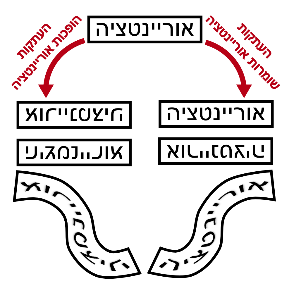 Orieantation preserving and inverting maps